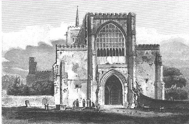 The west end of St Albans Cathedral prior to the destruction of the Wickhamstede window, from "Beauties of England & Wales" London: Published by Vernor & Hood, Poultry, March 1, 1805